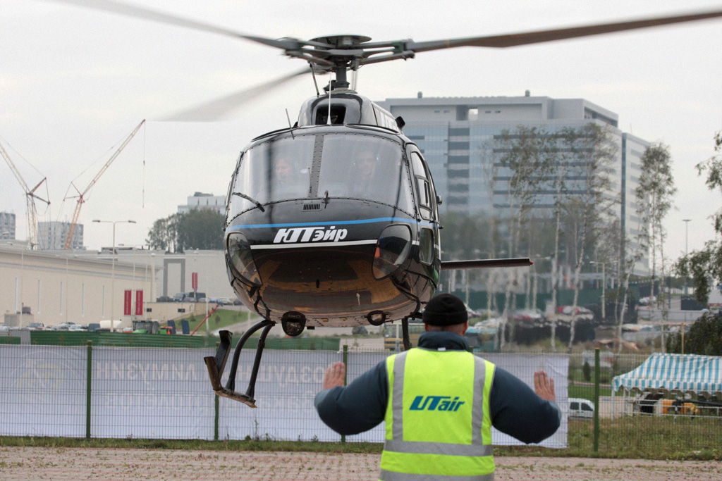 “Heliexpress air-cab”. Five-seat two-engine AS355N Eurocopter of the Ecureuil family on the Crocus Expo helicopter deck. This joint Heliexpress cab project is the responsibility of three companies: Russian Helicopter Systems, UTair aviation company and Eurocopter's subsidiary Eurocopter Vostok.